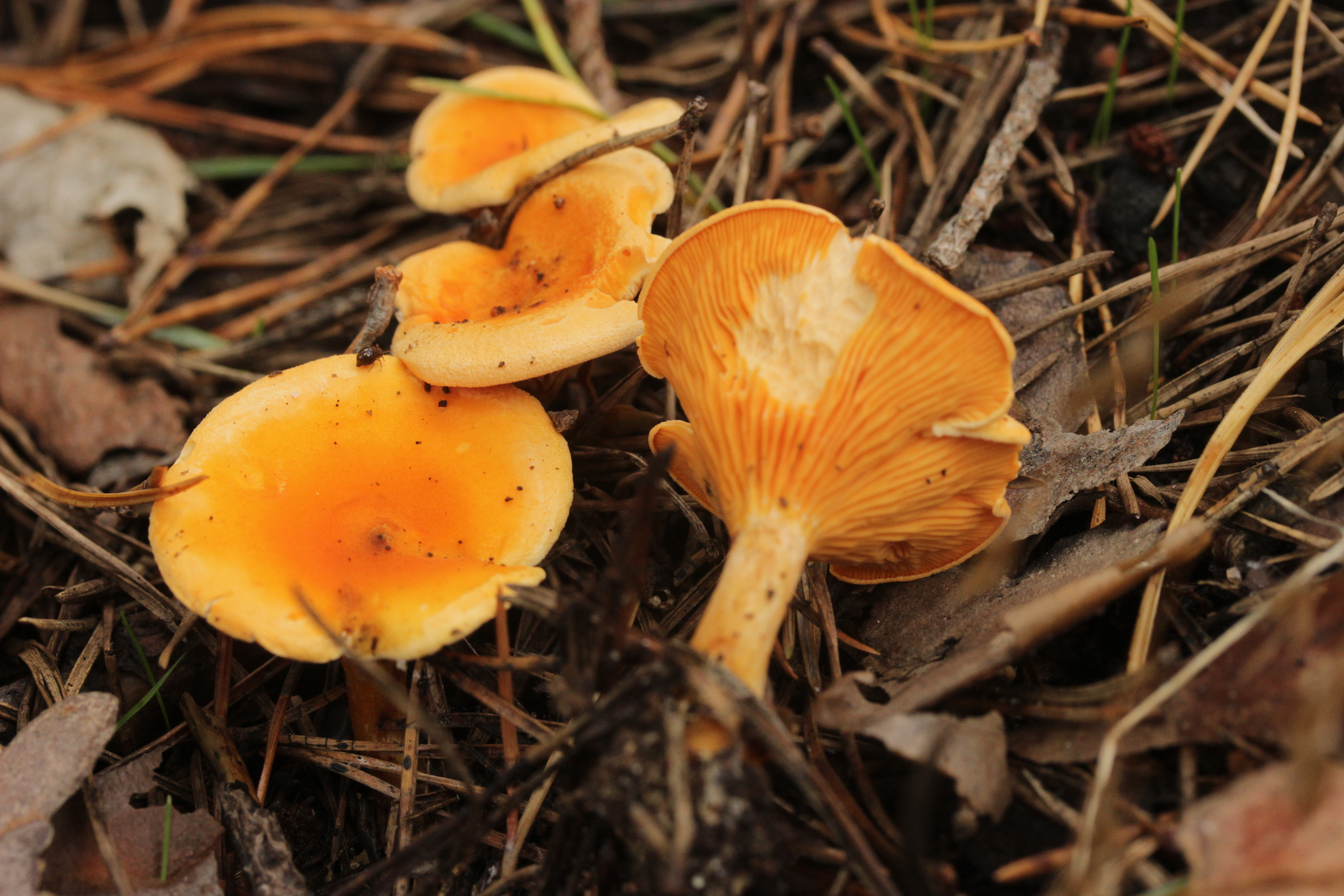 False Chanterelle - Hygrophoropsis aurantiaca